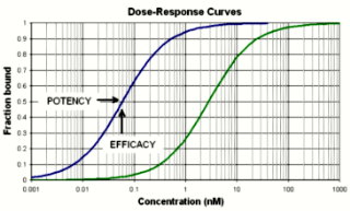 hypothetical dose-responses This picture is incorrect- the efficacy arrow should be at the peak (maximal) effect of the drug. This is NOT the same as potency which is the amount required to produce an effect of given intensity. One drug can have a higher potency but lower efficacy than another drug.